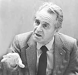 James Aldridge at an internationale authors meeting in Berlin on May 5, 1987